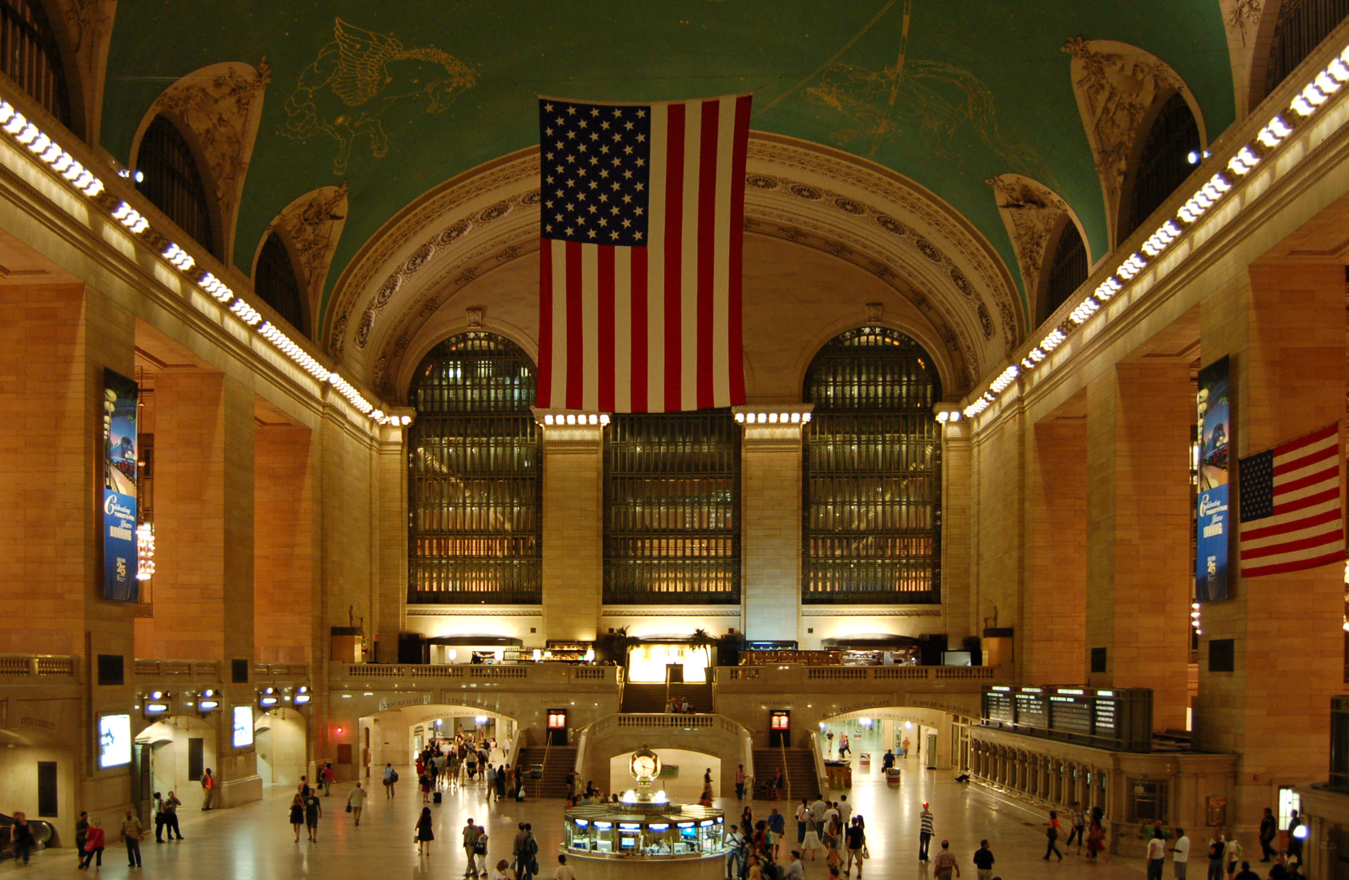 Grand Central Terminal, New York City, USA